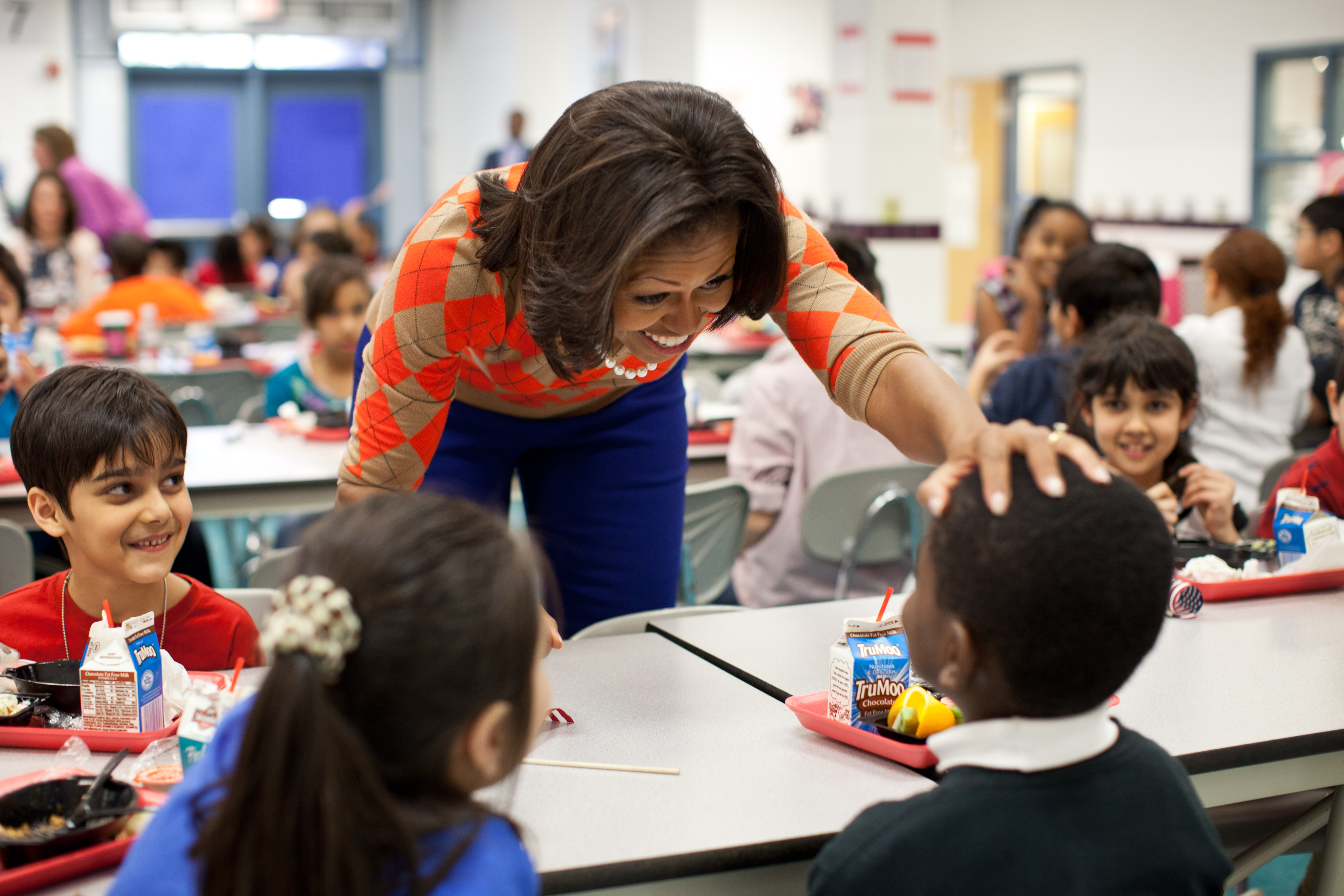 First Lady Michelle Obama has lunch with students at Parklawn Elementary School in Alexandria, Va., Jan. 25, 2012. The First Lady and Agriculture Secretary Tom Vilsack visited the school to sample a healthy meal that meets the United States Department of Agriculture's new and improved nutrition standards for school lunches. (Official White House Photo by Chuck Kennedy)